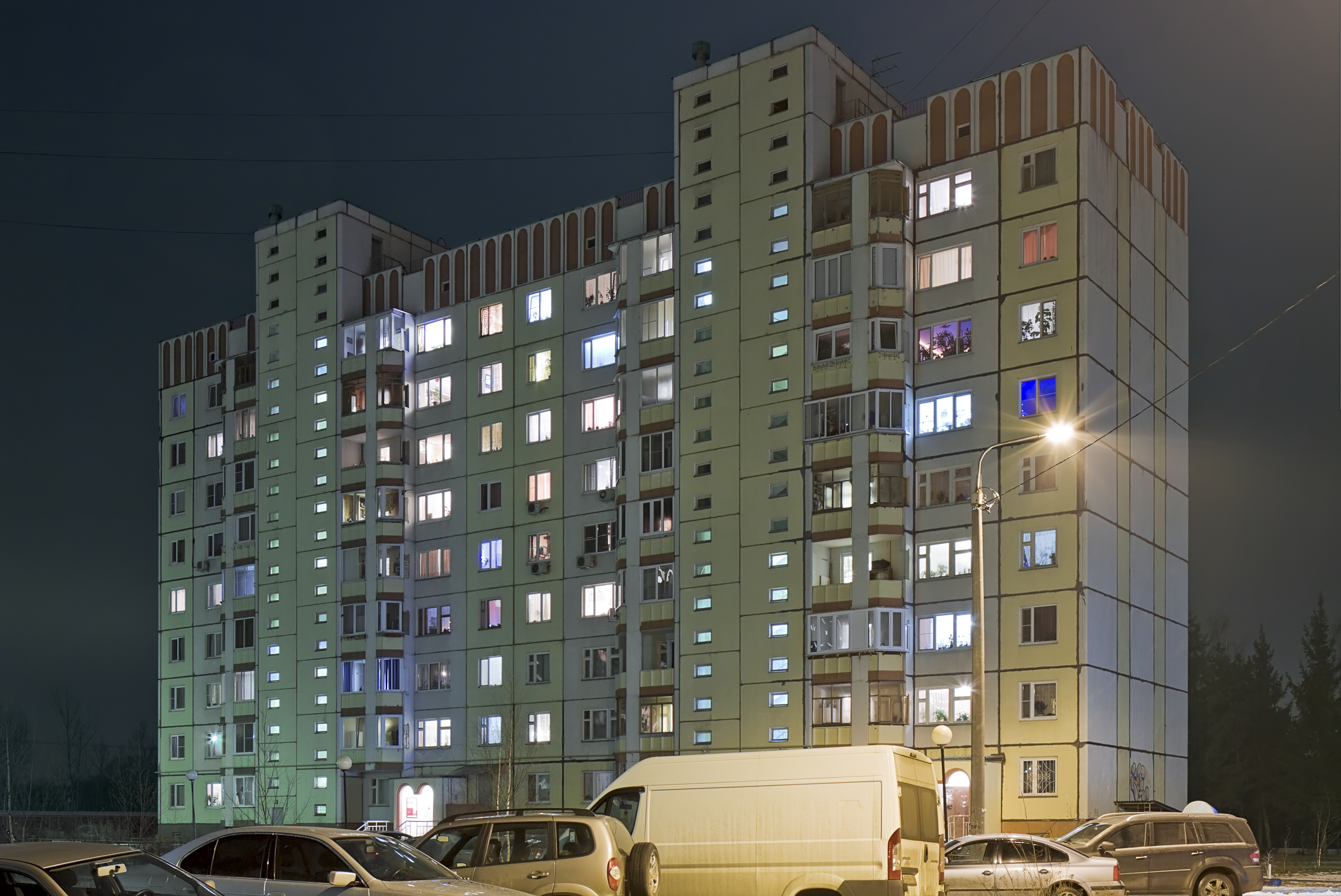 The house where the employees of the Cosmonaut Training Center live. Russia, Star City, house № 63. Inhabited in 2004 year.